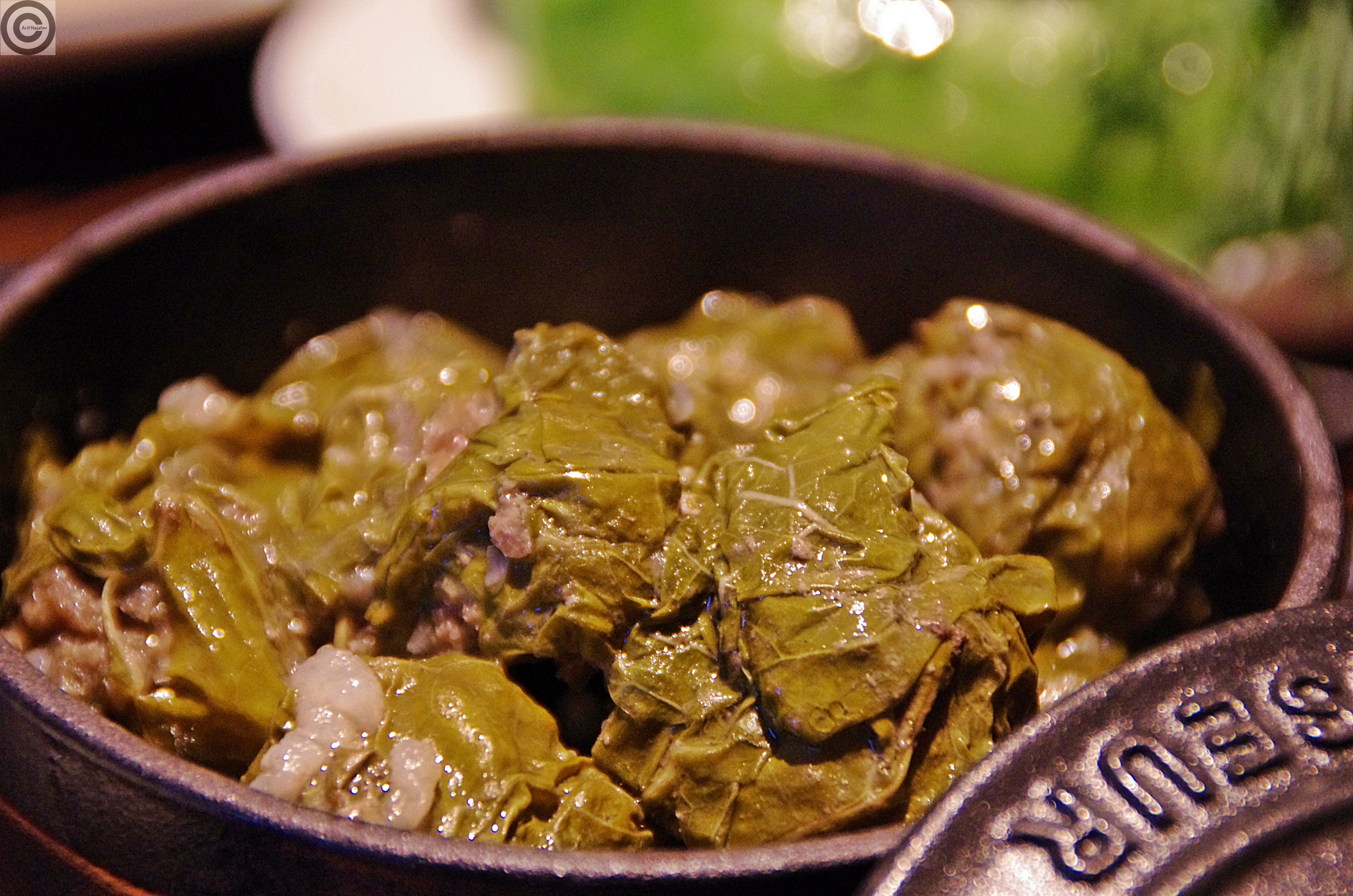 Azerbaijani traditional national dish of the yaprag dolması